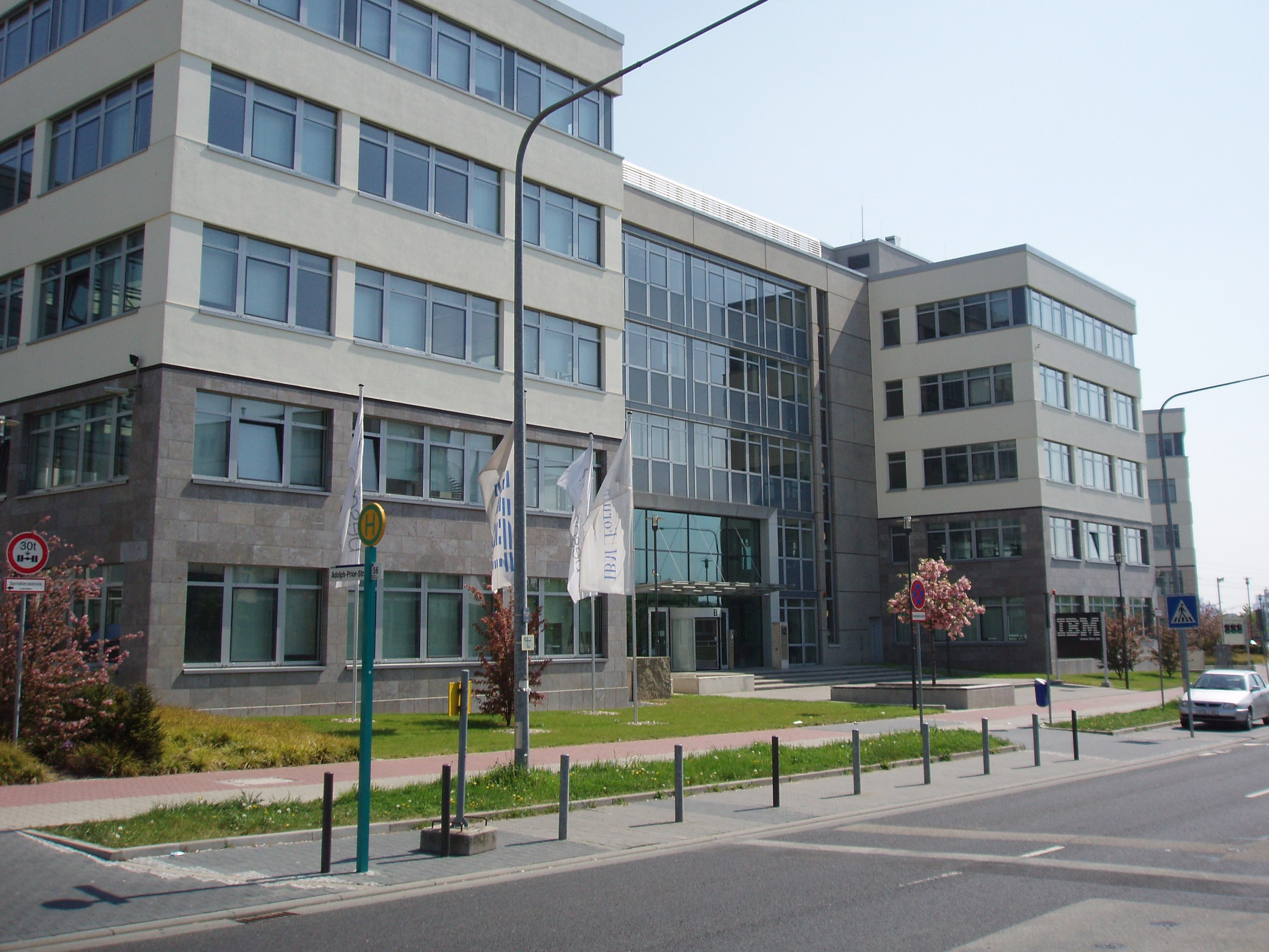 IBM building in Frankfurt am Main, Wilhelm-Fay-Strasse